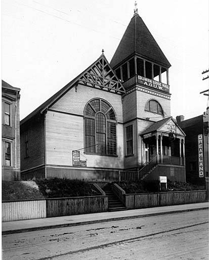 Built originally for the Church of Jesus Christ of Latter Day Saints. Subjects (LCTGM): Organizations' facilities--Washington (State)--Seattle On the right is just a bit of the Dreamland Pavilion (1906-1925), primarily a skating rink but also used for dances, political events, boxing matches, etc.